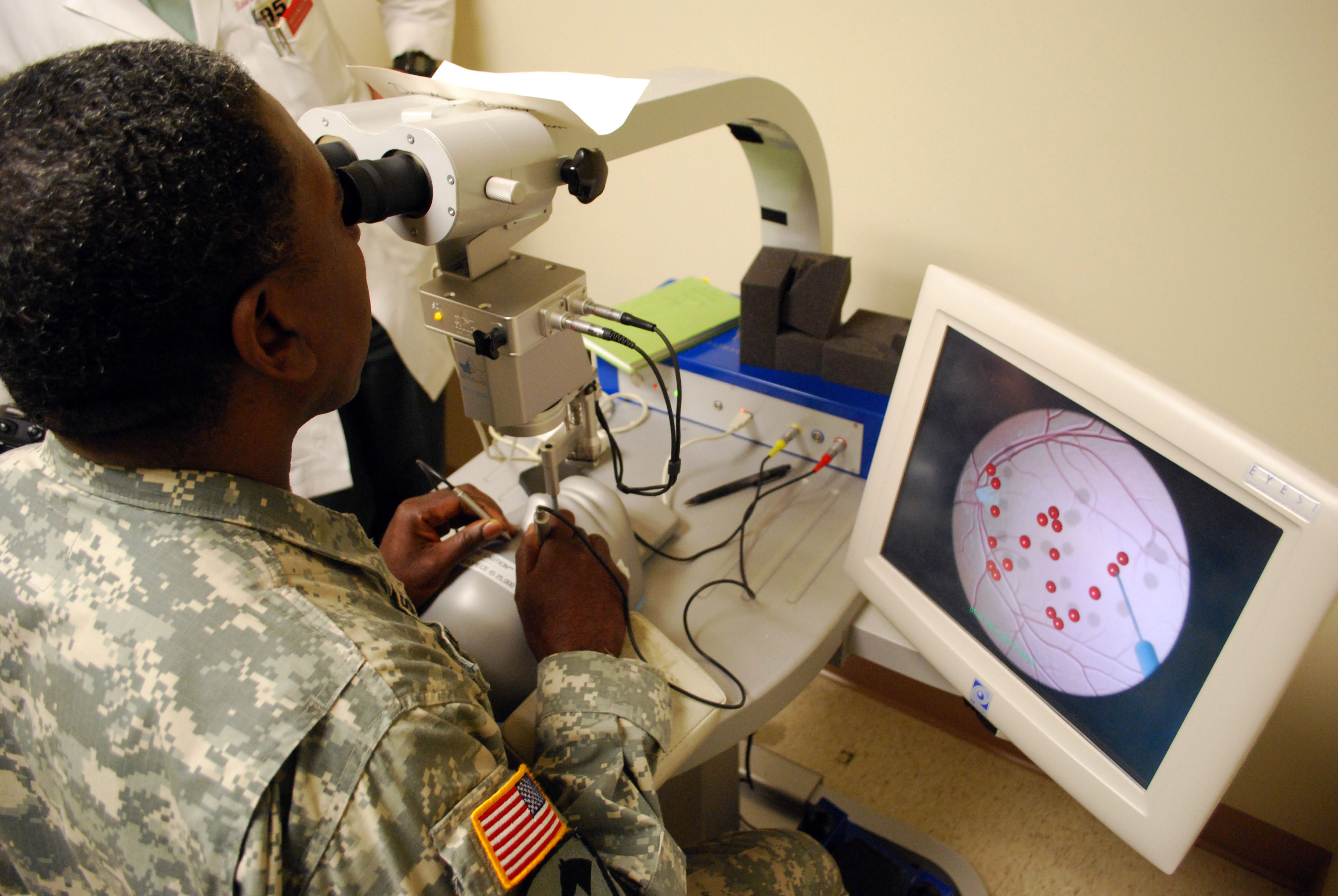 Maj. Bruce Rivers, a resident with the Ophthalmology Clinic, warms up on the eyeZI, a virtual reality simulator, before operating on patients. The simulator allows Rivers to tone his hand-eye-foot coordination skills needed for ophthalmic surgery. Madigan was the first residency program in the nation to purc Photo Credit: Lorin T. Smith (Army Medicine - Madigan Army Medical Center)